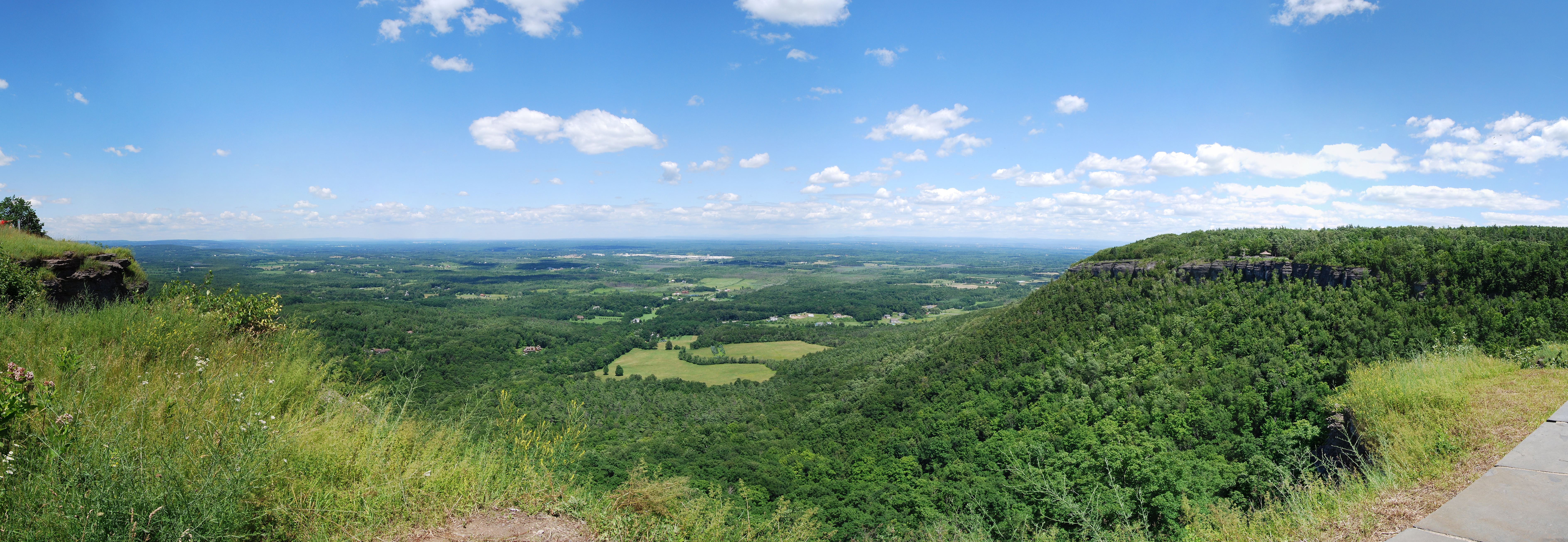 View of the towns of New Scotland and Bethlehem and the city of Albany in New York, United States from a lookout point on the Long Path in John Boyd Thacher State Park. Much of this view exemplifies the still rural nature of many areas in upstate New York and specifically in the Capital District. Juxtaposed with this rural nature is the city of Albany. Right of center just below the horizon can be seen the four dormitory towers of the University at Albany and right of that can be seen the Empire State Plaza in Albany. An edge of the Helderberg Escarpment can be seen at right.